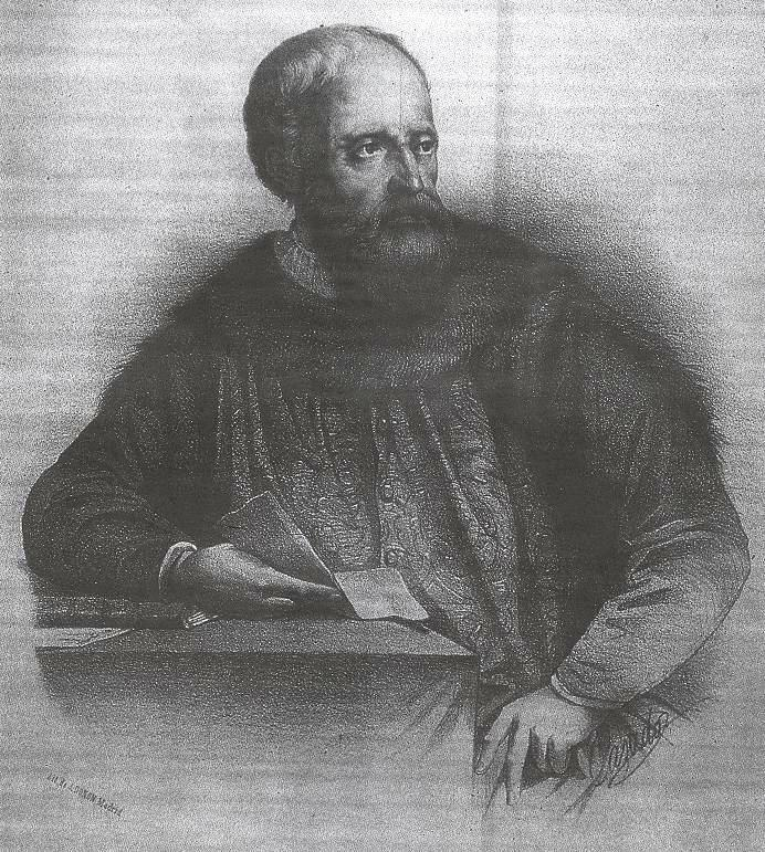 Ruy Gonzalez de Clavijo